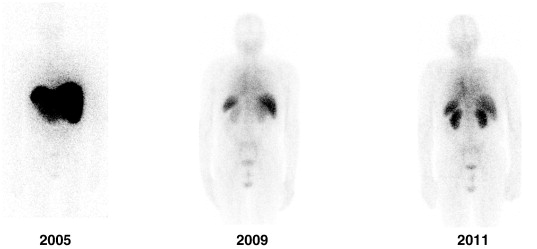 SAP scintigraphy image showing progression of patient with AL amyloidosis during treatment with chemotherapy. Major liver involvement and proteinuria in 2005 have changed to normal liver and renal function in 2009. Proteinuria recurred due to underlying plasma cell dyscrasia in 2009-11 resulting in reaccumulation of renal amyloid observed in 2011 scan.